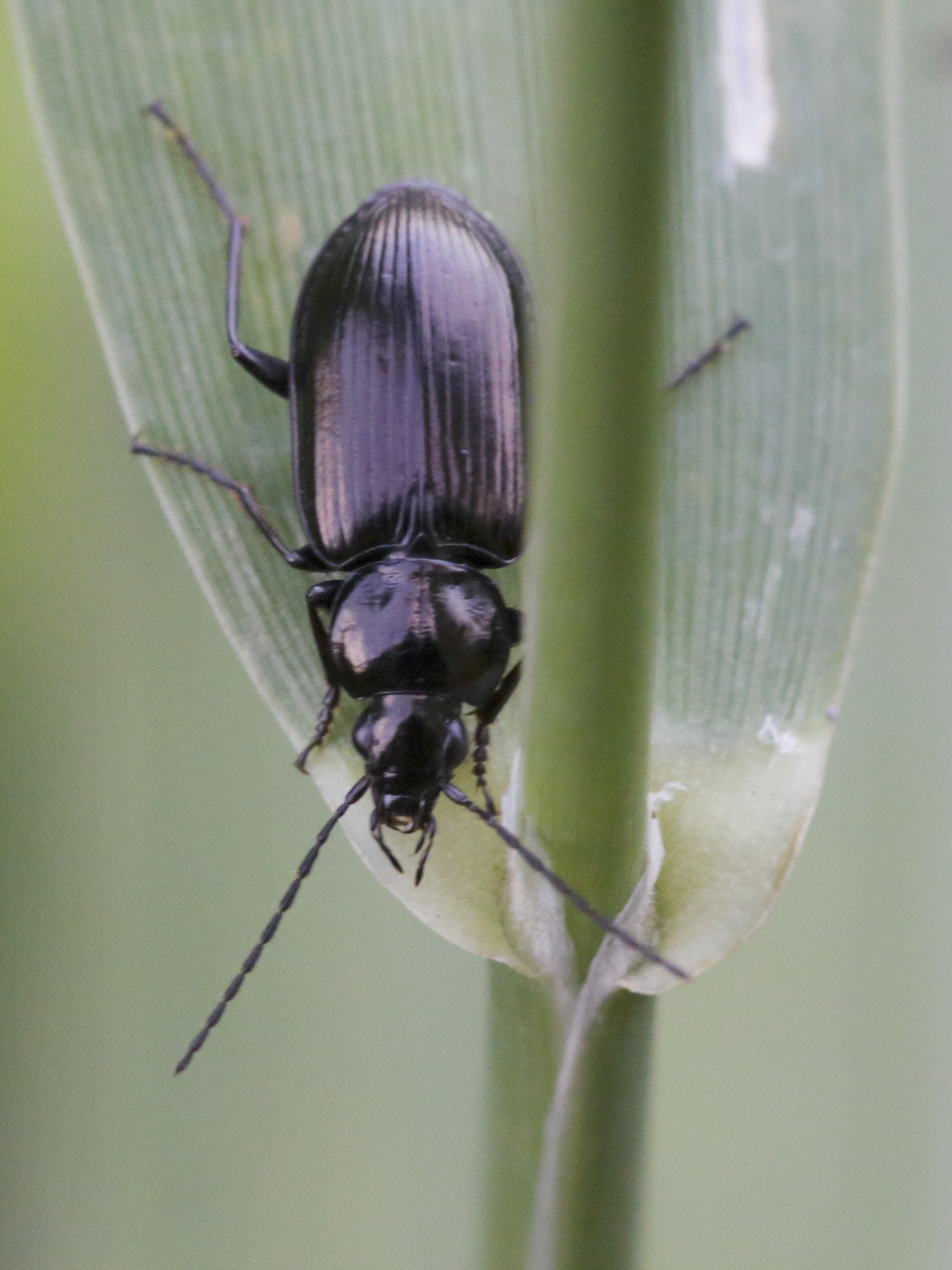 L: 5.8 –7.2 mm Phylum: Arthropoda LATREILLE, 1829 (arthropods, Gliederfüßer) Subphylum: Hexapoda BLAINVILLE, 1816 Class: Insecta LINNAEUS, 1758 (insects, Insekten) Subclass: Pterygota (Fluginsekten) Infraclass: Neoptera MARTYNOV, 1923 Order: Coleoptera LINNAEUS, 1758 (beetles, Käfer) Suborder:Adephaga SCHELLENBERG, 1806 Family: Carabidae LATREILLE, 1802 (ground and tiger beetles, Laufkäfer) Subfamily: Platyninae BONELLI, 1810 Tribus: Platynini BONELLI, 1810 Genus: Agonum BONELLI, 1810 Most Agonum species are pronouncedly hygrophilous and live near water. The are carnivorous, feeding on a wide range of small arthropods. Subgenus: Europhilus CHAUDOIR, 1859 probably Agonum scitulum DEJEAN, 1828 N-Germany, Lower Saxonia, vic. Hitzacker: Drethem (river Elbe), 28.09.2013 IMG_3113